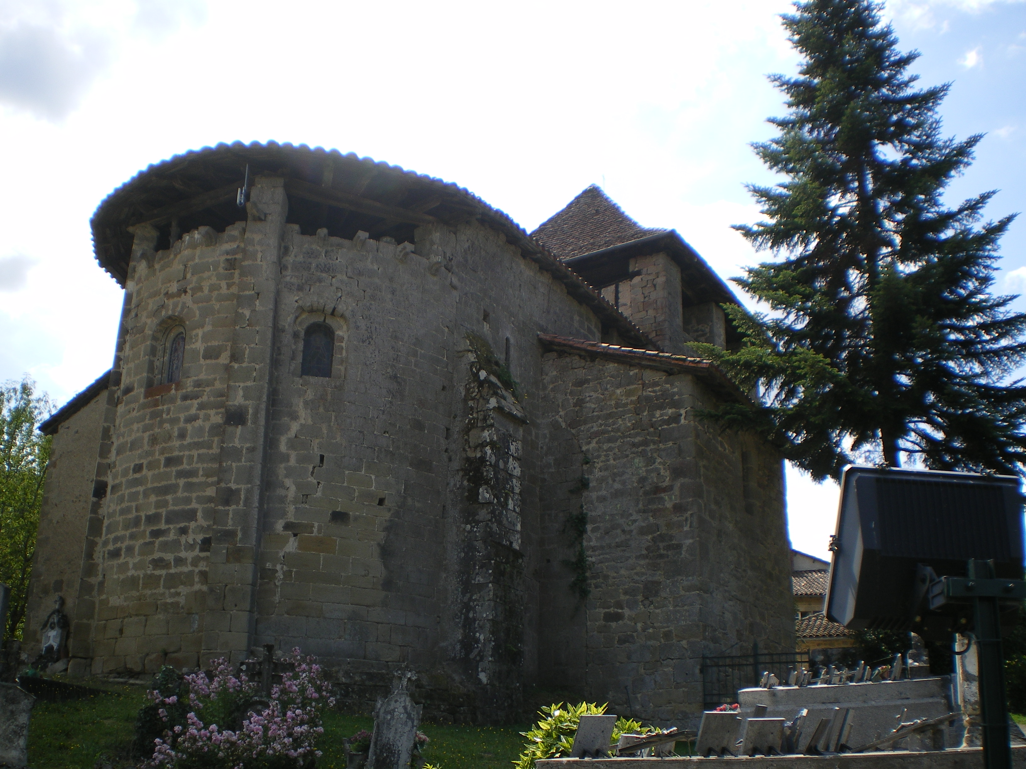 Church in Saint-Perdoux, Lot, France